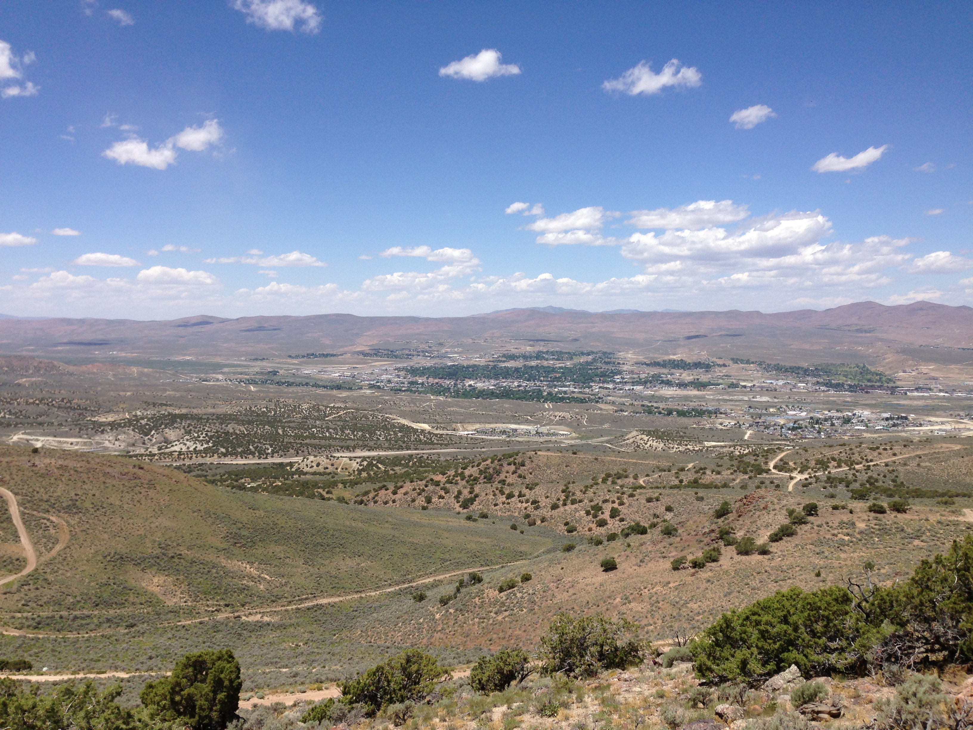 View of Elko, Nevada from "E" Mountain in the Elko Hills of Nevada